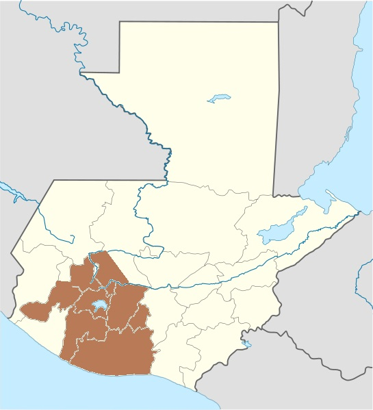 Area controlled by the Franciscans under Provincia del Santísimo Nombre de Jesús in the XVII Century.